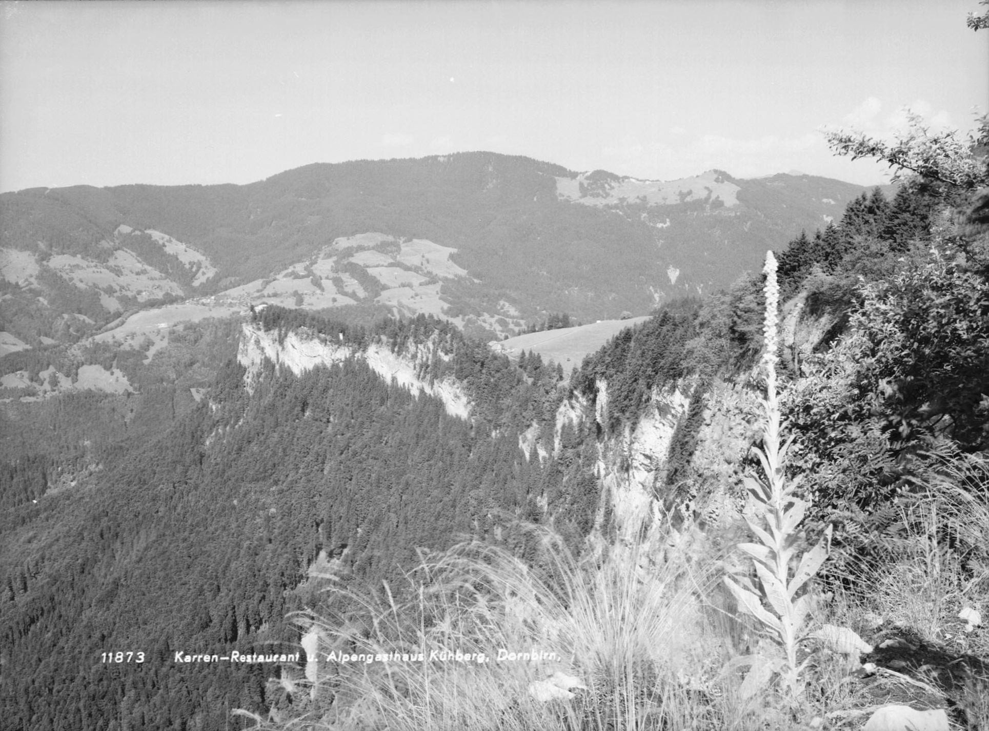 Mountain station cable car on the Karren and restaurant on the Karren, foreground center: the Kühberg (Alp-Inn Kühberg). In the background Kehlegg and Kehlegger Viehweide (cattle pasture), Schauner. Rearmost mountain range: Lank (Boedele), Hochaelpele, Gschwendt, Gschwendtsattel, Graesakopf. Summer recording from the Breiten Berg. Foreground: Verbascum (mullein)